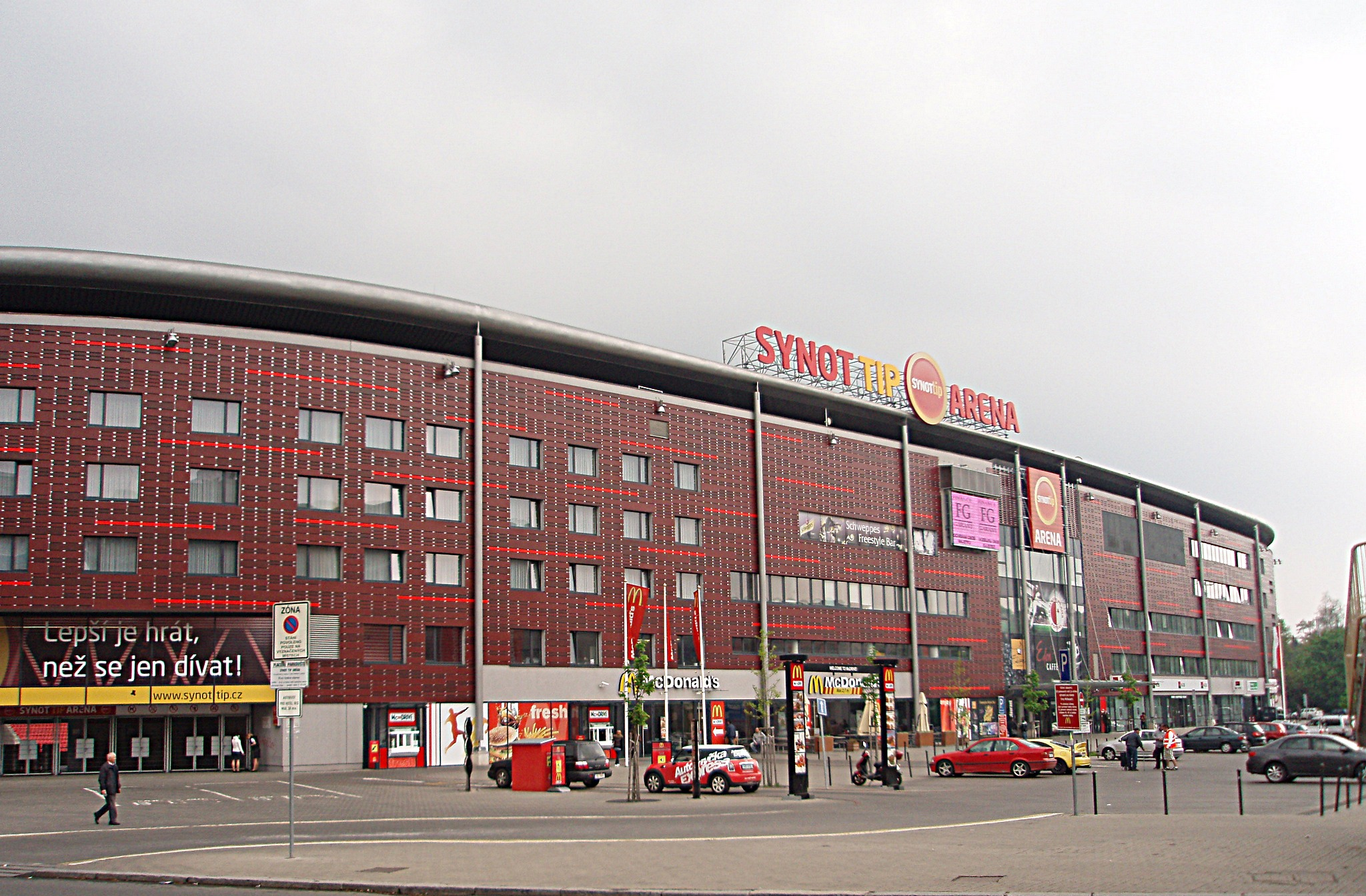 SYNOT TIP ARÉNA